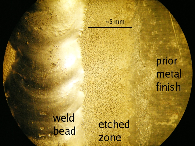 Experimental TIG weld of type 6061 aluminium plate 4mm thick, 200 peak amperes AC (65% electrode negative, 10 pulses/second at 50% pulse duty cycle, 5 amperes maintenance current between pulses), welded under argon gas with filler rod, showing weld bead, characteristic AC TIG etch, and unaffected metal surface. Photographed via Wild M5Z microscope and Konica-Minolta X1 digital camera by W.S. Yerazunis. Image scale approximate.